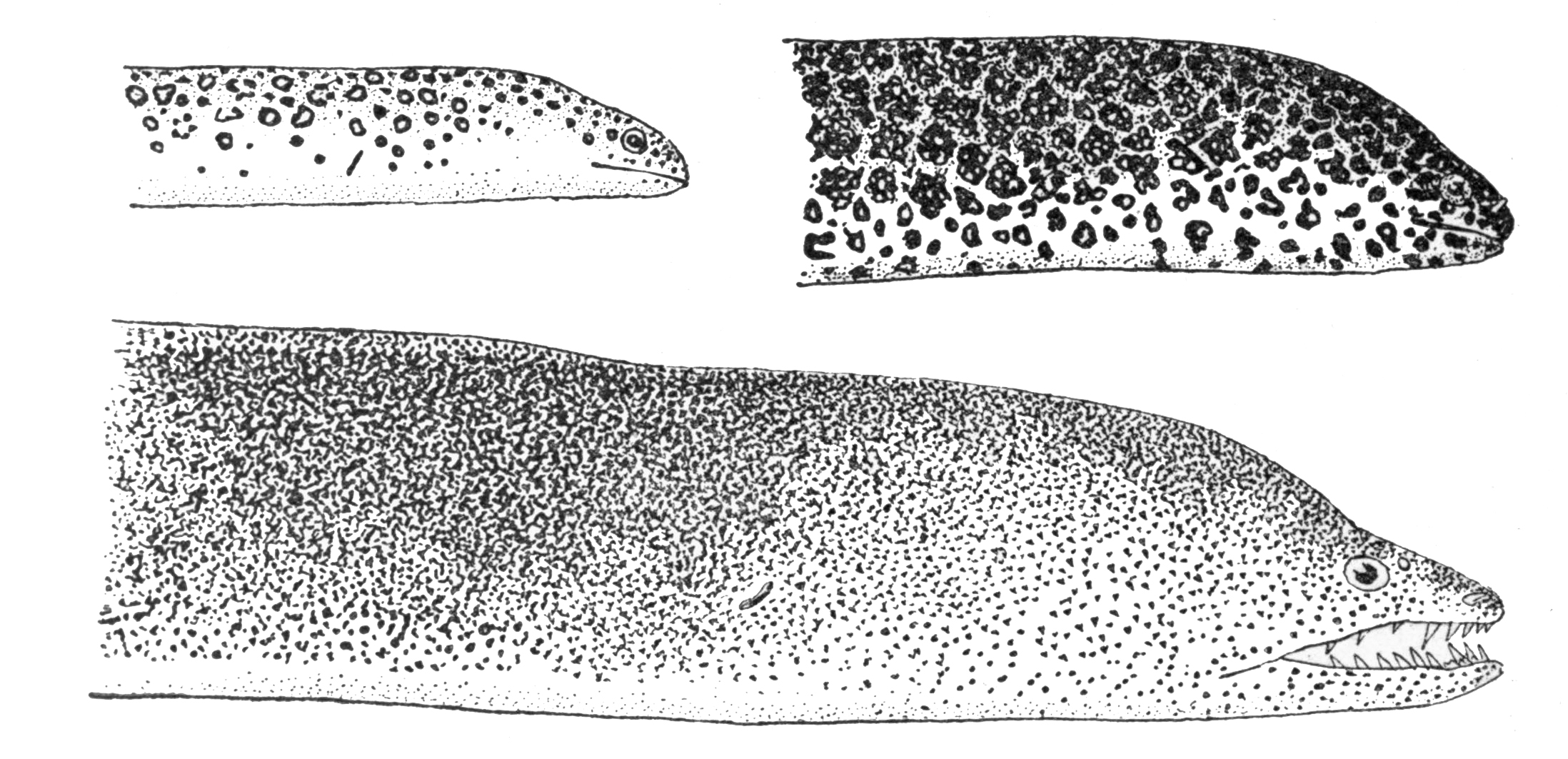 Three stages of Gymnothorax pictus with corresponding change of coloration.